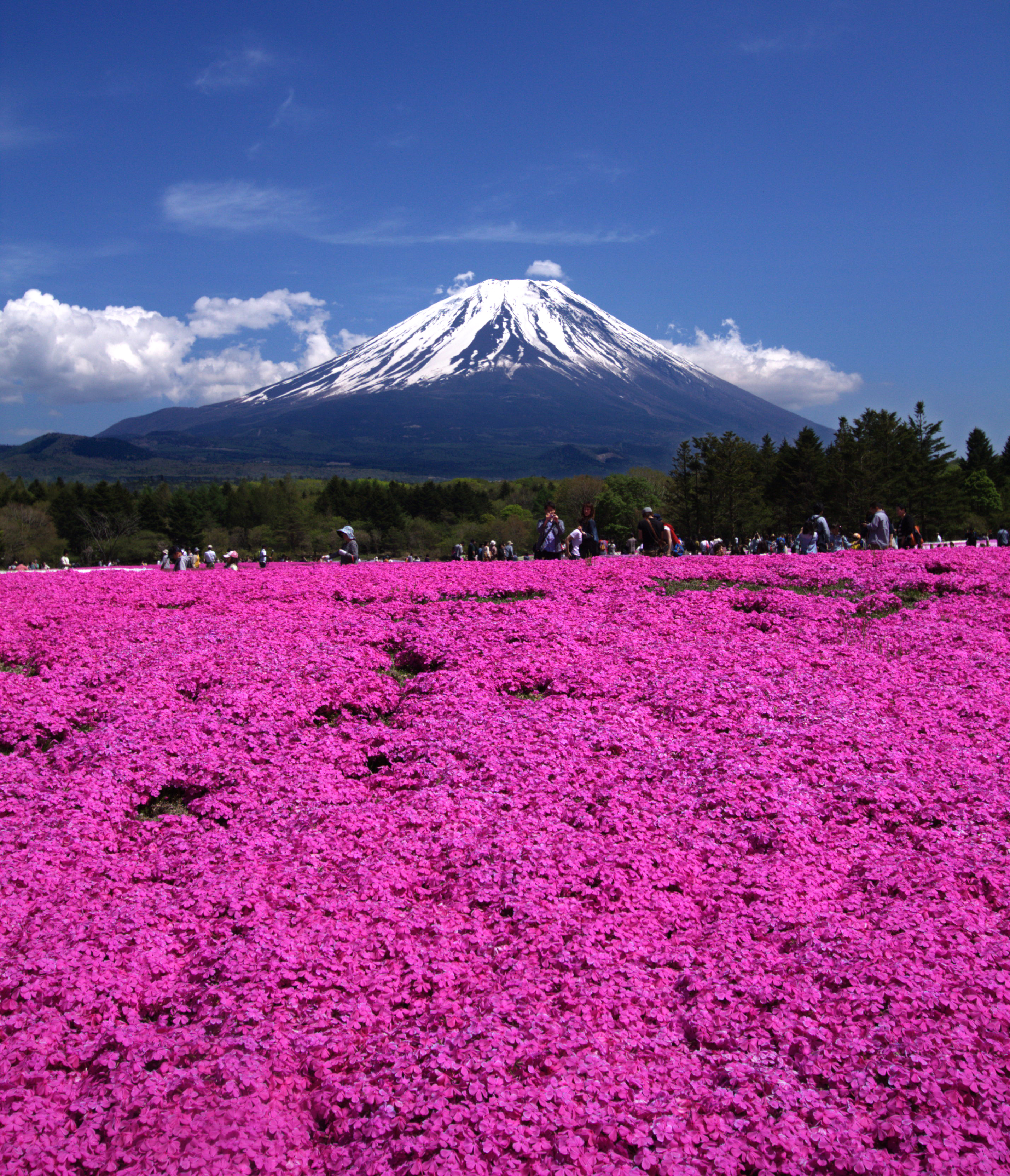 Shibazakura (Moss Phlox) Festival near Lake Motosu under the foot of Mt. Fuji, Yamanashi, Japan